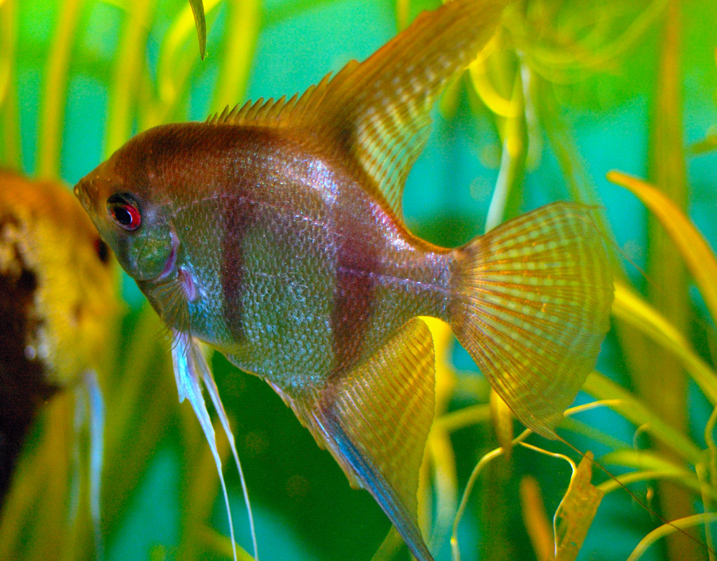 Pterophyllum scalare